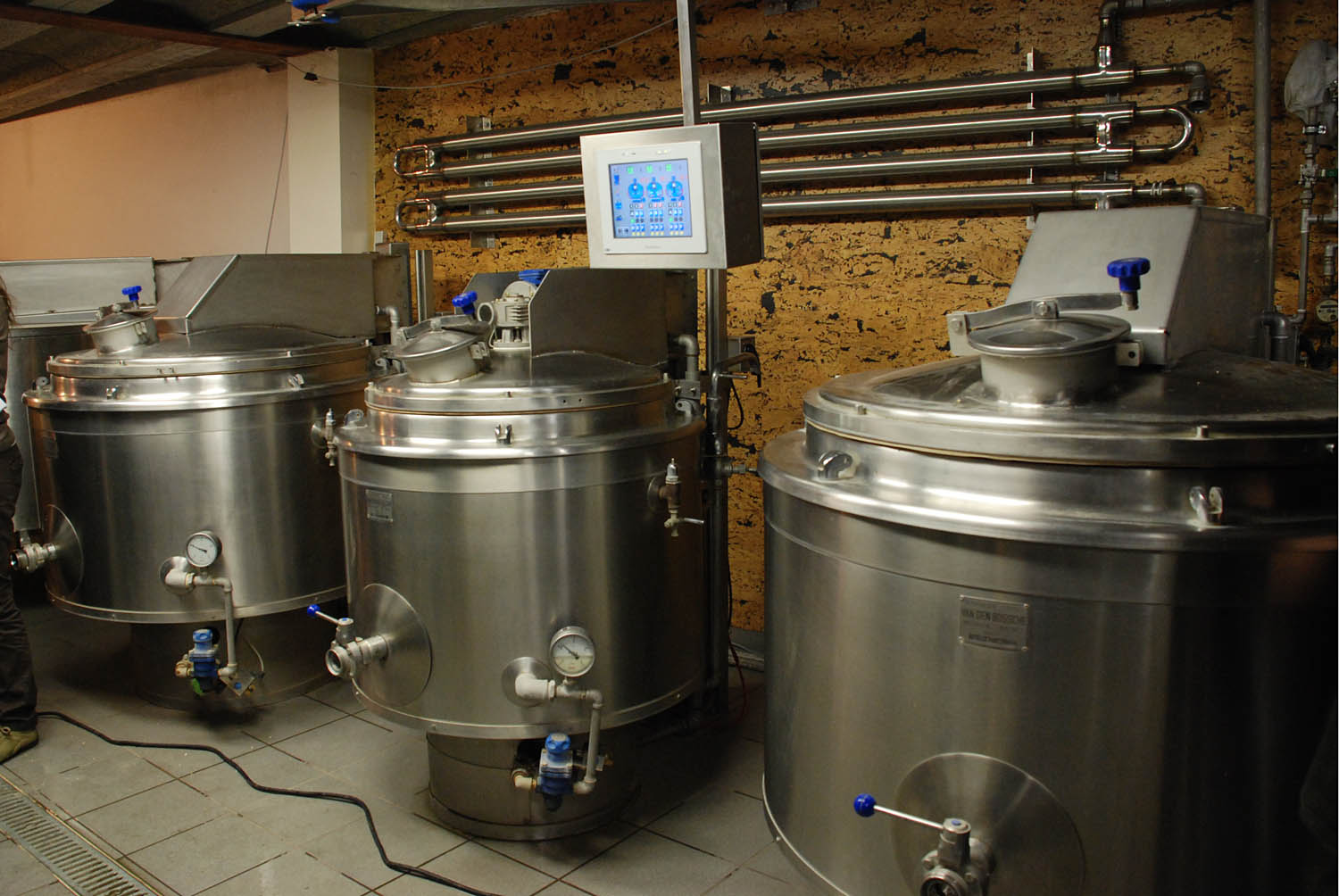 Brewery La Frasnoise